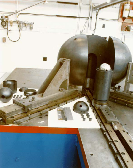 This is the Flattop (critical assembly)) experiment, used to study the nuclear behavior of the fissile nuclides.